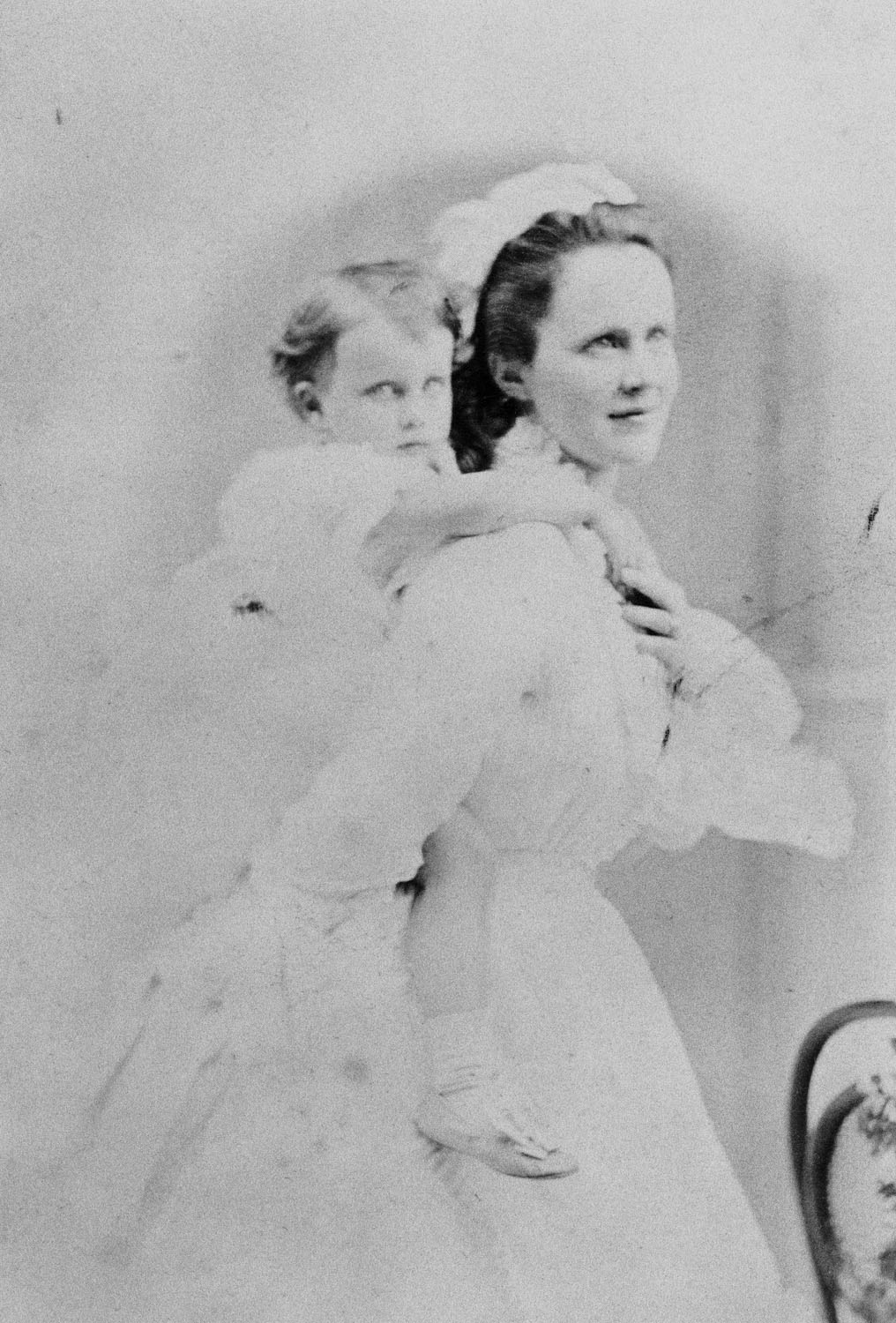 Queen Elisabeth of Romania and Princess Maria, 1873